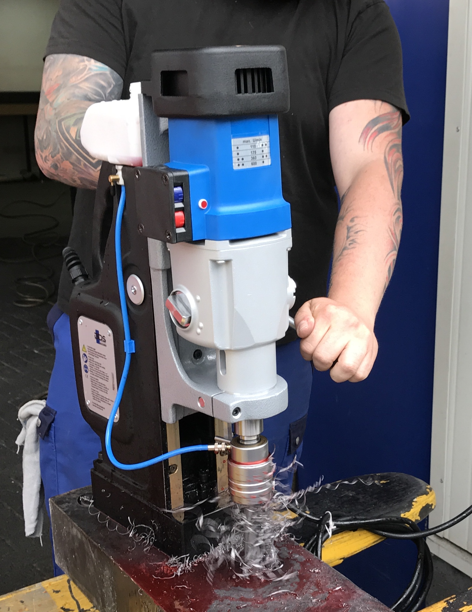 A Heavy Duty Magnetic Drilling Machine Performing Drilling On Mild Steel Of Thickness 100 mm.